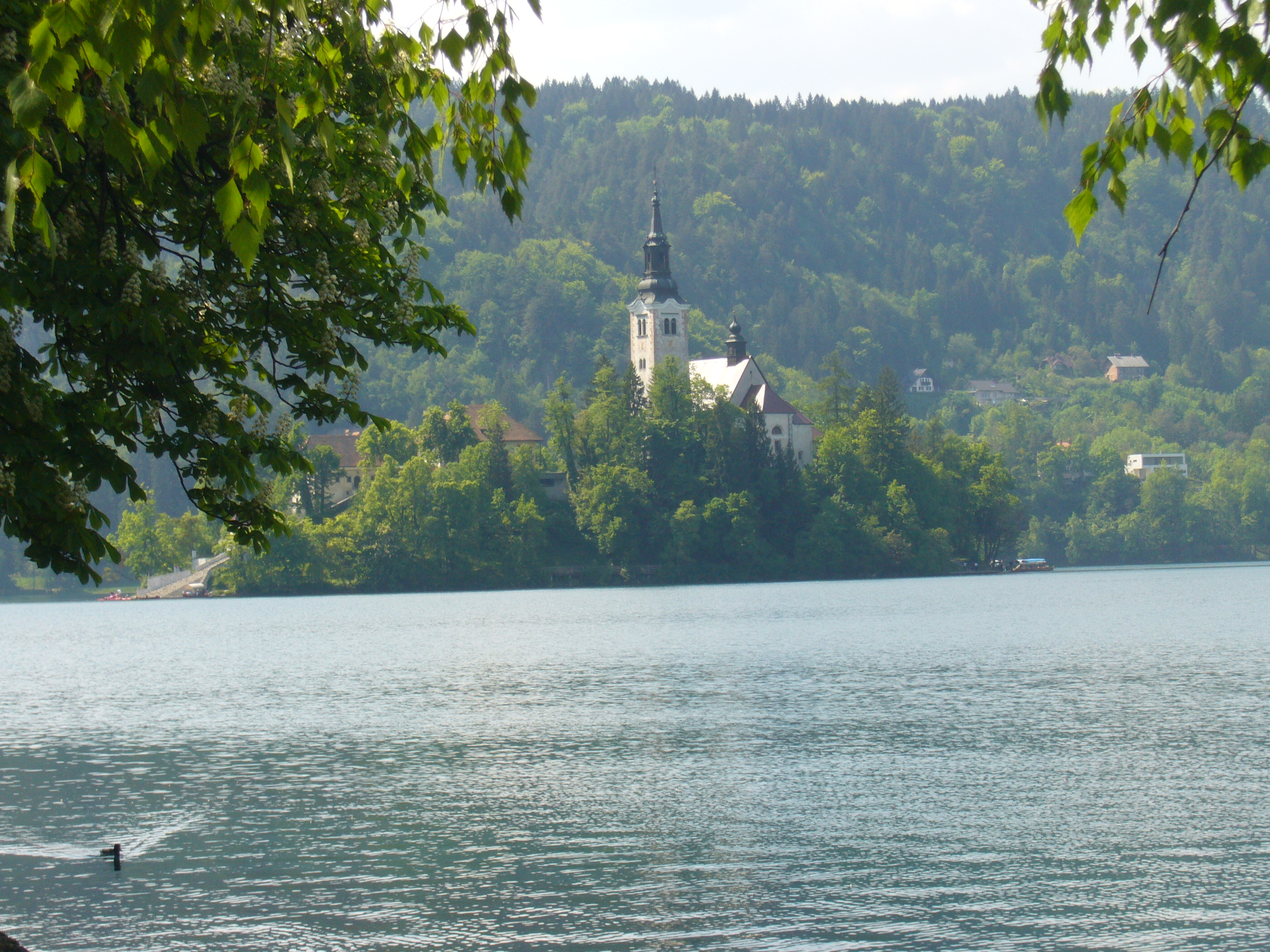 Bled Lake in Slovenia